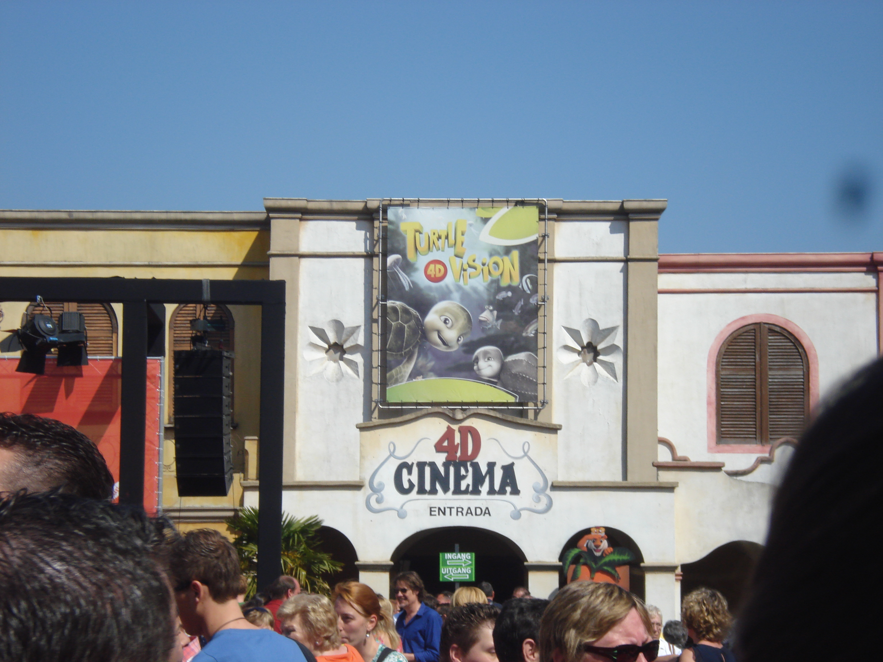 4D cinema